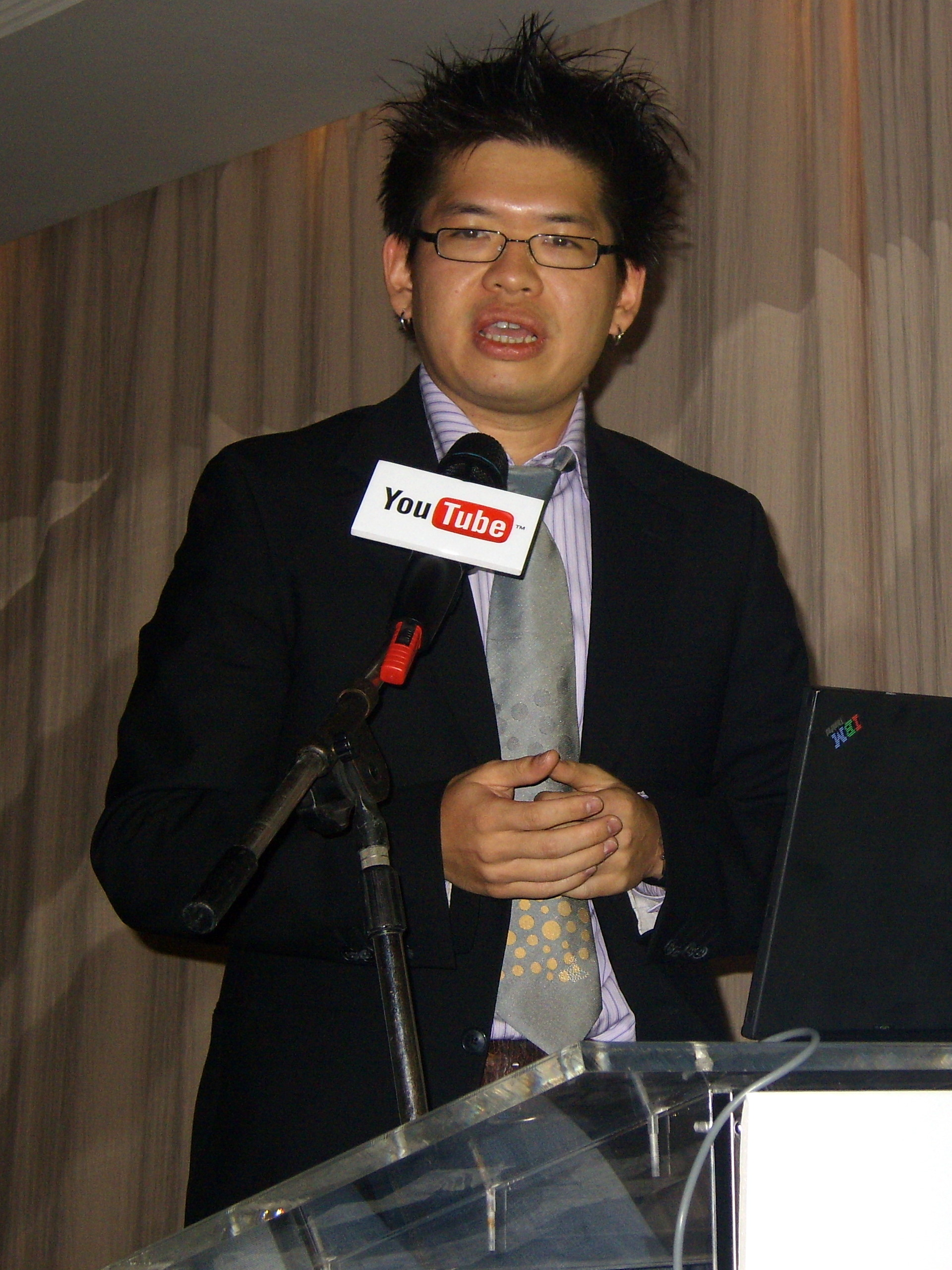 Steve Chen explained functions of YouTube Taiwan Site at YouTube Taiwan Launch Press Conference.